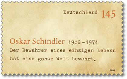 stamp for 100 years of birth of Oskar Schindler. The stamp translates to "The protector of a single life has protected an entire world." (1908-1974)